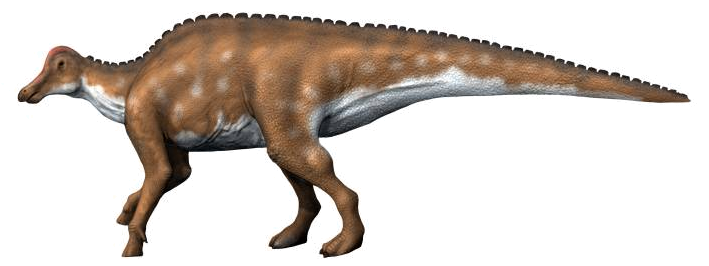 Restoration of Hypacrosaurus altispinus